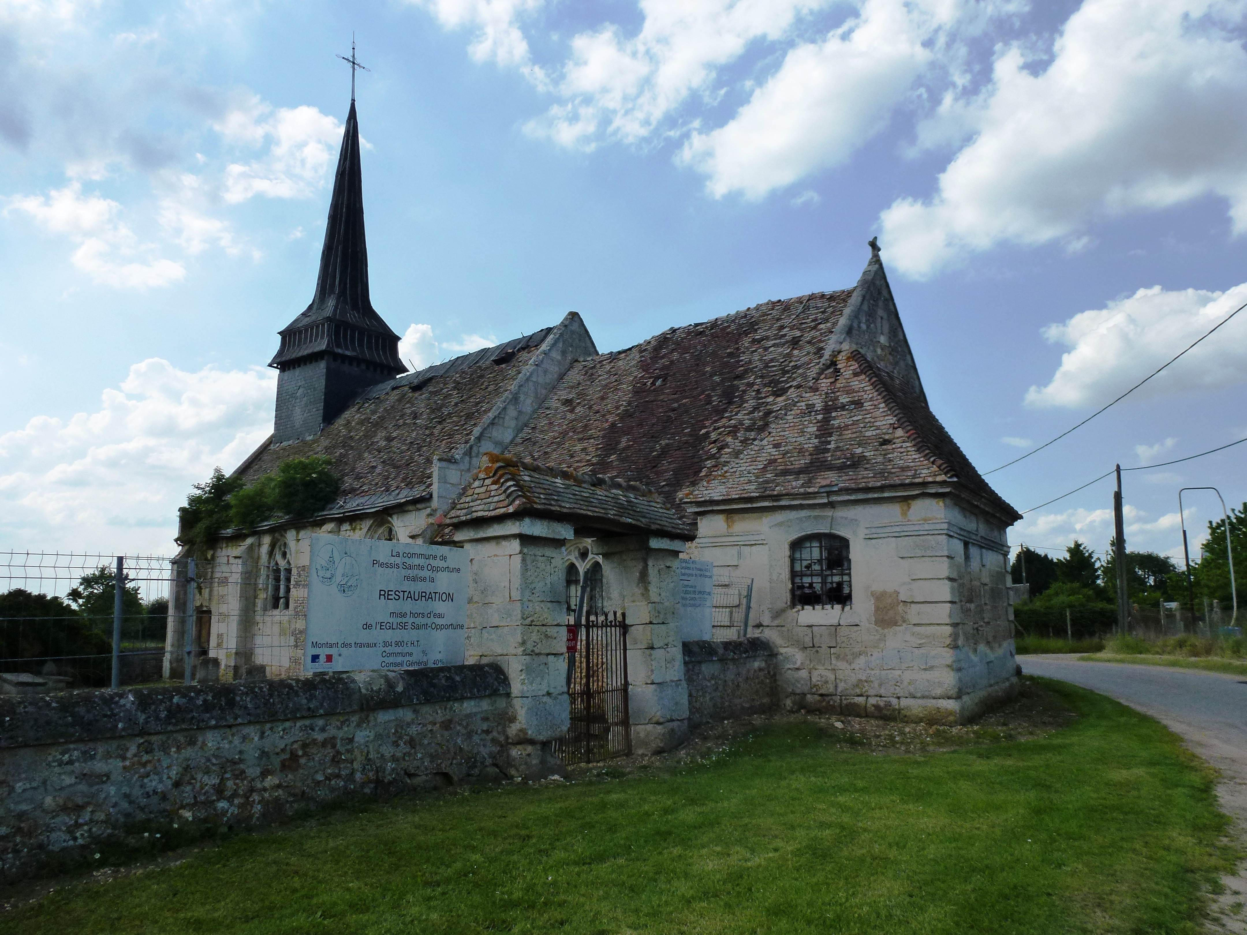 Le Plessis-Sainte-Opportune (Eure, Fr) église Sainte-Opportune de Sainte-Opportune-la-Campagne